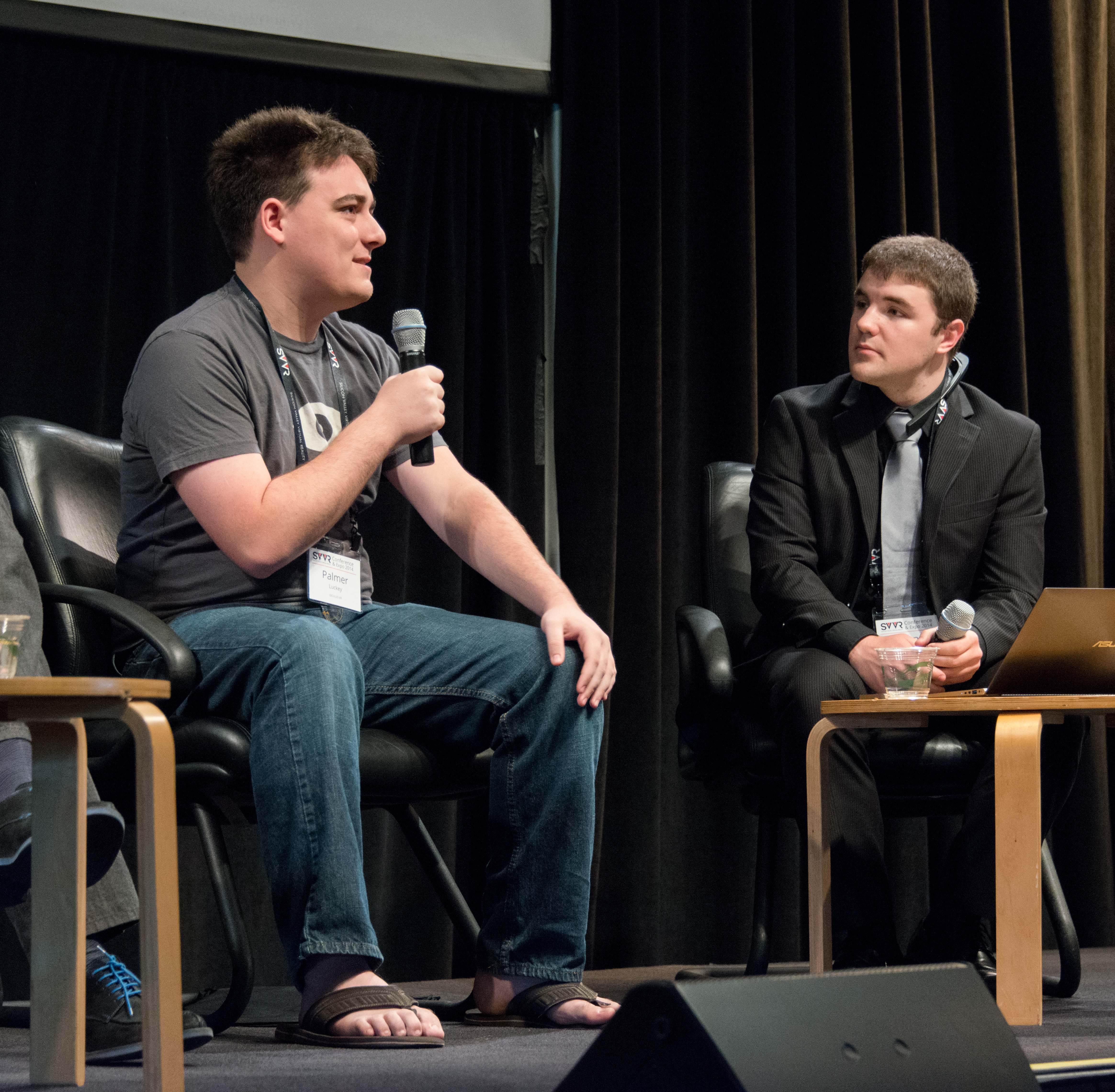 Palmer Luckey on stage during panel discussion at SVVR 2014 "Forecasting VR’s Adoption Over the Next 5 Years" (see conference schedule). In Hahn Auditorium of Computer History Museum in Mountain View, California. Wearing grey T-shirt featuring white Oculus VR logo in center and flip-flops. On right is Ben Lang, a journalist from Road to VR.